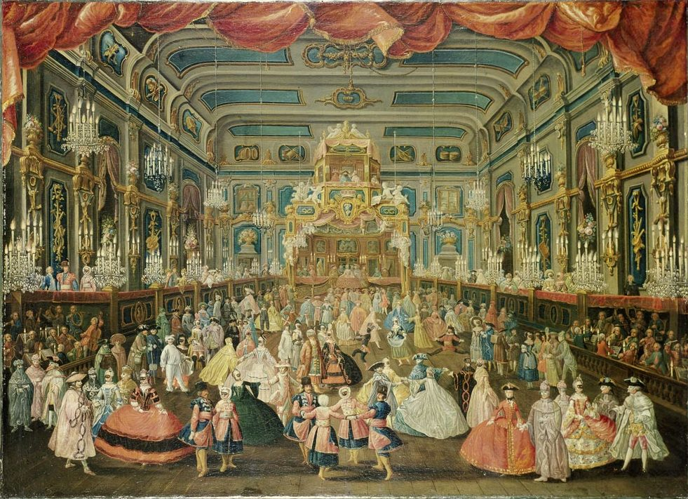 1754 painting by François Rousseau of a masked ball in the Hoftheater of the castle at Bonn. Oil on canvas, 105 x 146 cm